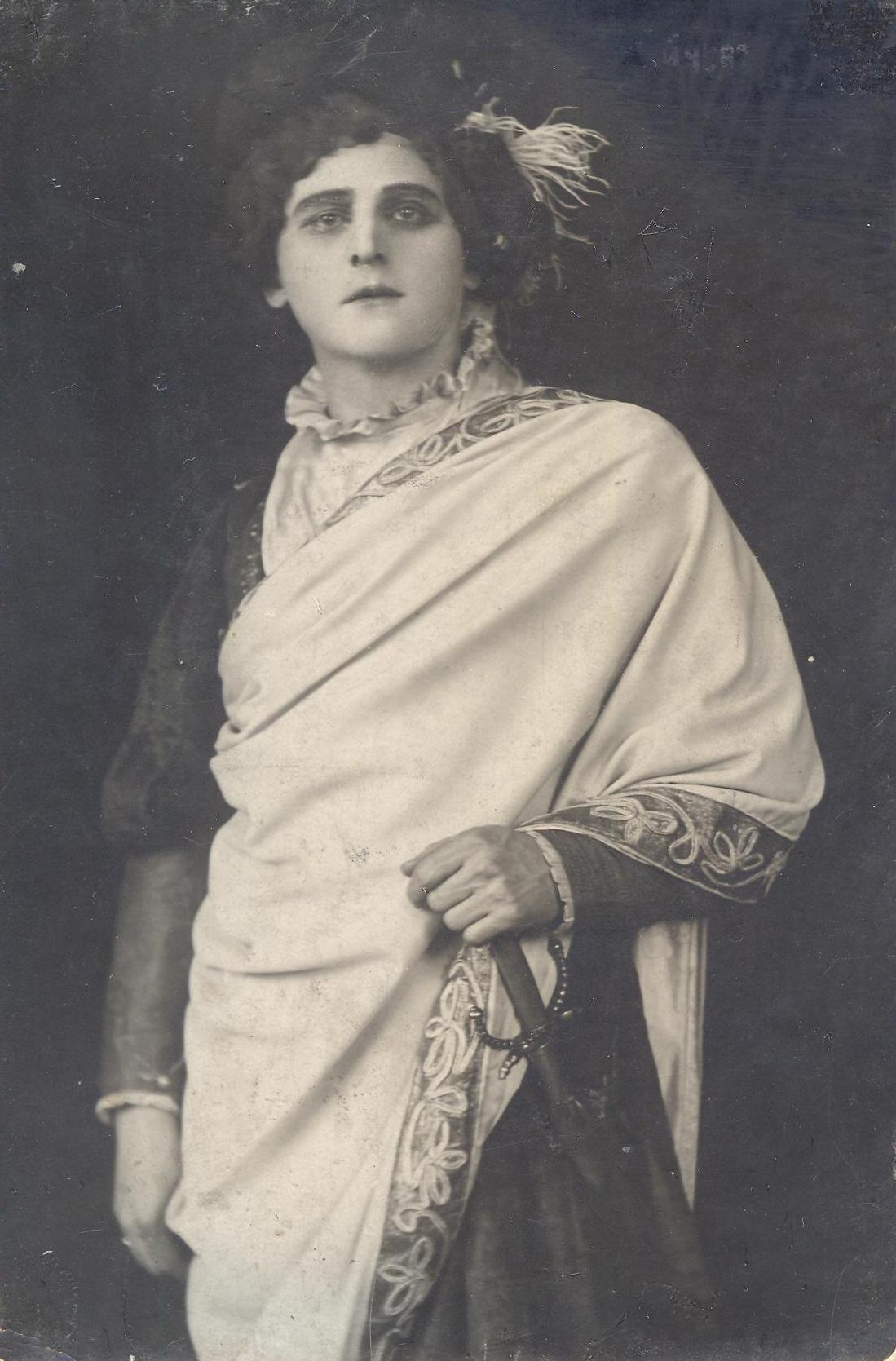 Petar Raychev in Faust Opera, Baku, 1919.